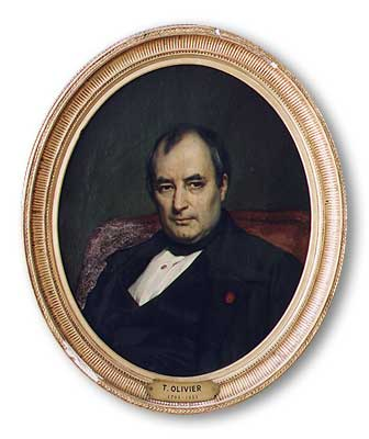 Portrait of Théodore Olivier (1793-1853), French mathematician